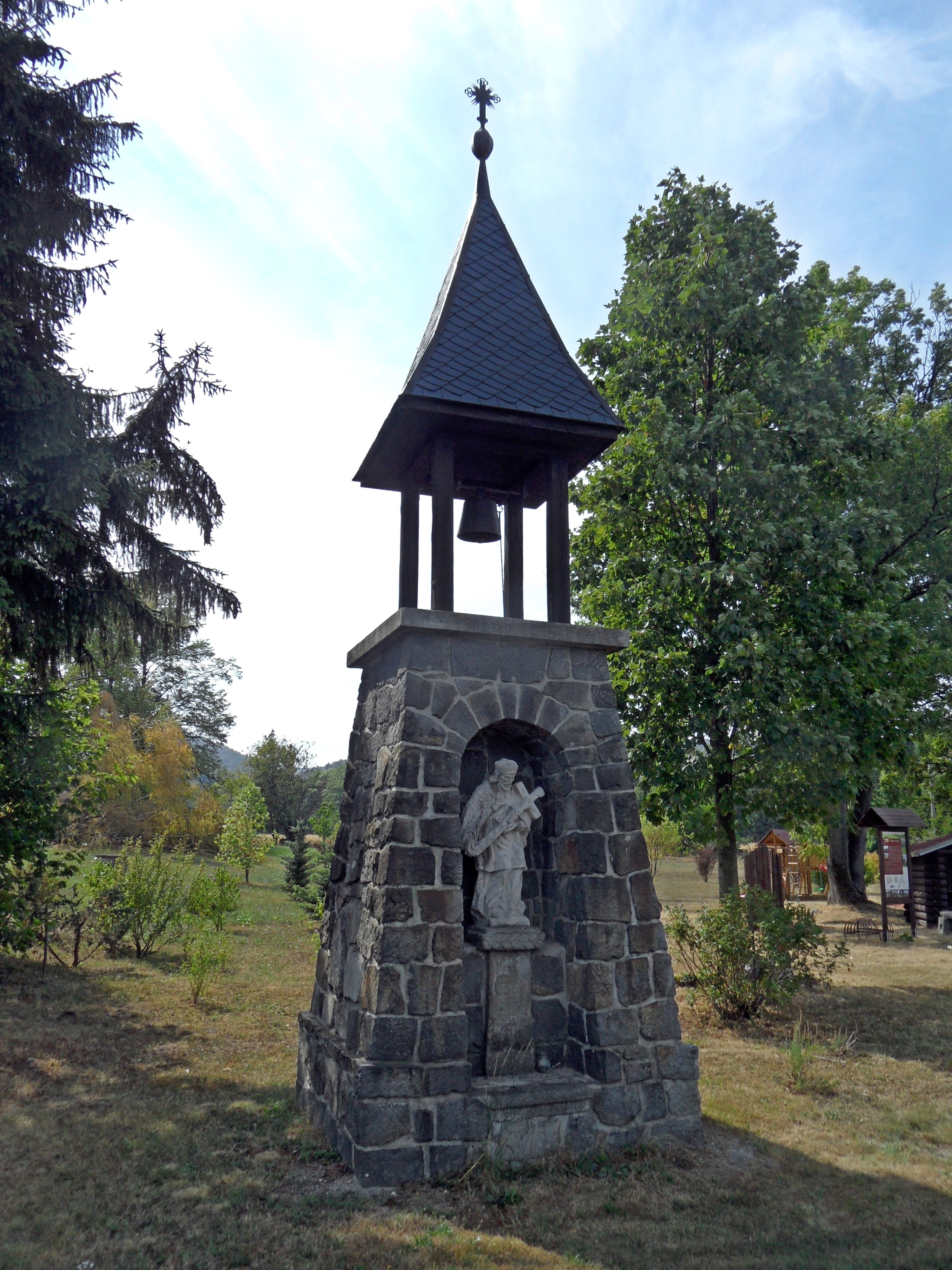 Horní Fořt A. Stone Bell Tower with Statue of Saint John of Nepomuk: Overview. Jeseník District, the Czech Republic.